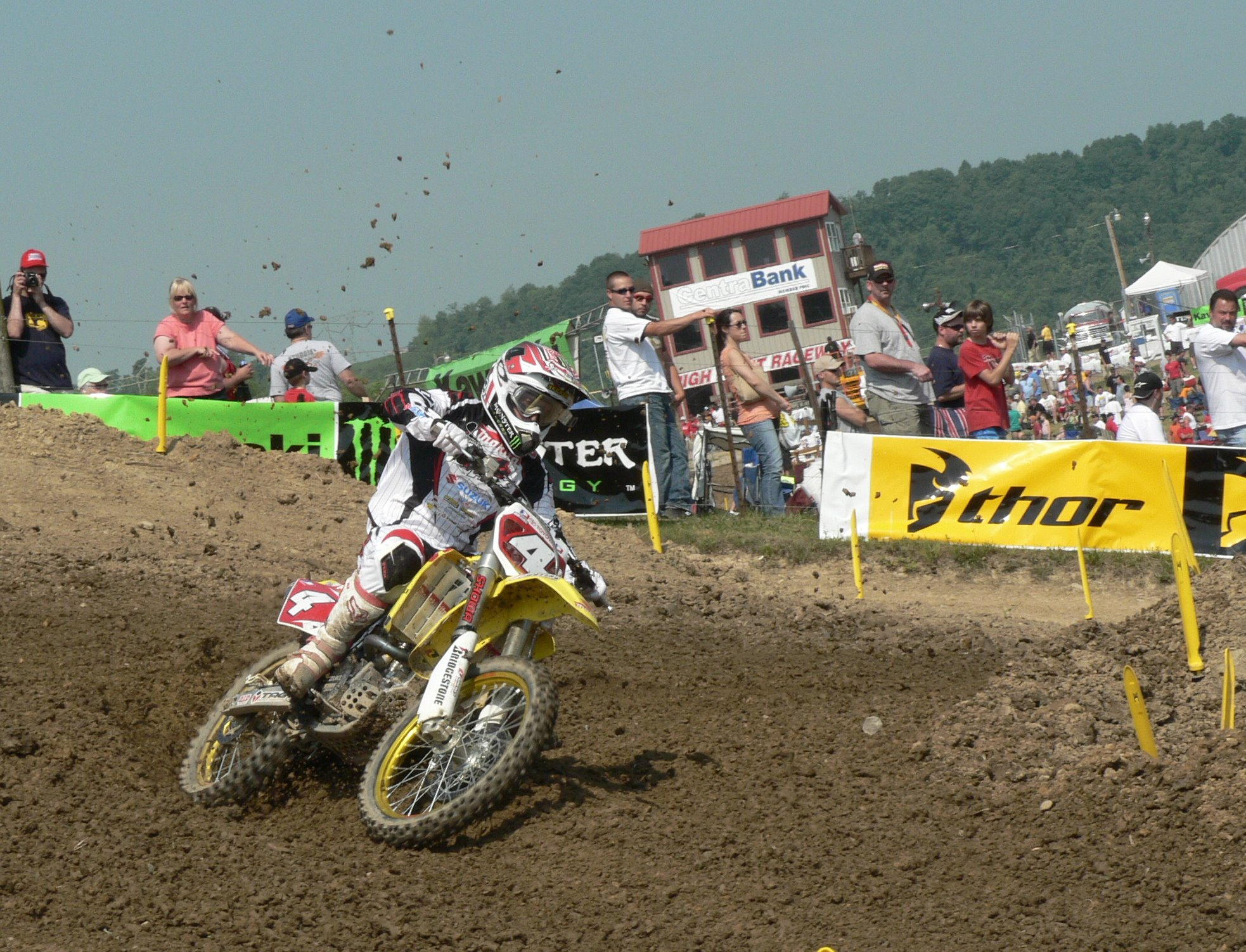 Why is Ricky Carmichael the G.O.A.T? Besides 148 race wins. The first moto on Sunday he had a bad start and was backed up to 5th behind the leader. At one point I counted 9 seconds between him and the leader James Stewart. He ate up that 9 seconds and passed the leader and won the race by 10 seconds. He was relentless, Motos are only 30 minutes long plus 2 laps.